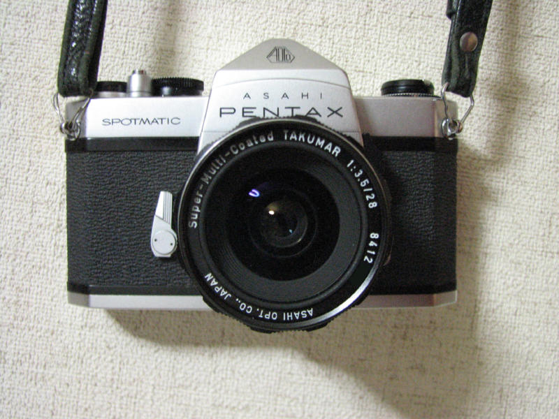 Pentax SP(Spotmatic).